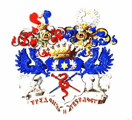 Coat of Arms of Kusov family